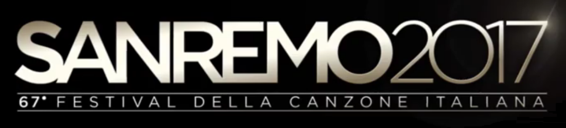 Logo of the 67th Sanremo music Festival, 2017